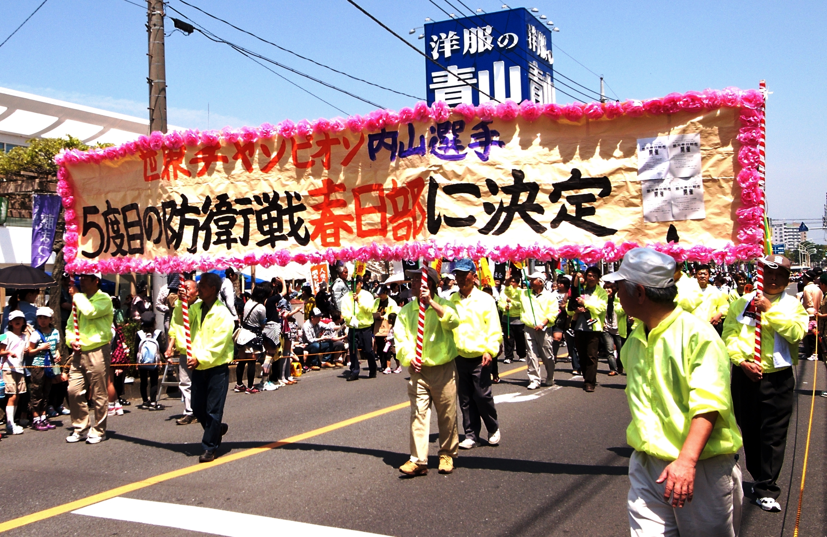 Kasukabe citizens celebrating Takashi Uchiyama's fifth title defense to be held at the first time in his hometown Kasukabe, Saitama, Japan, during 2012 Kasukabe Fuji Festival.